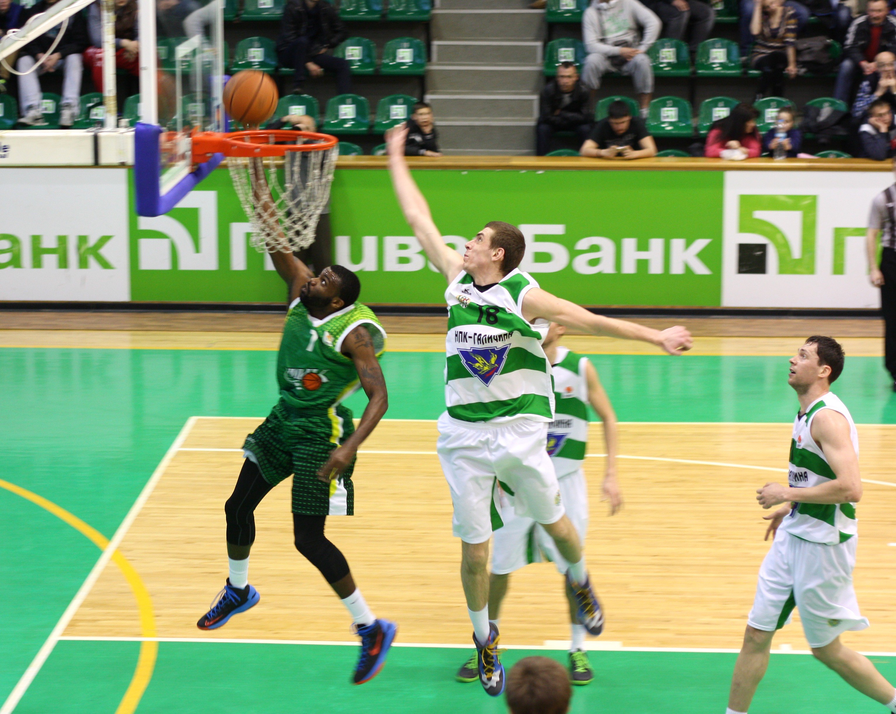 Anton Davydyuk vs Jamal Shuler BC Politekhnika-Halychyna - BC Khimik April 01, 2014